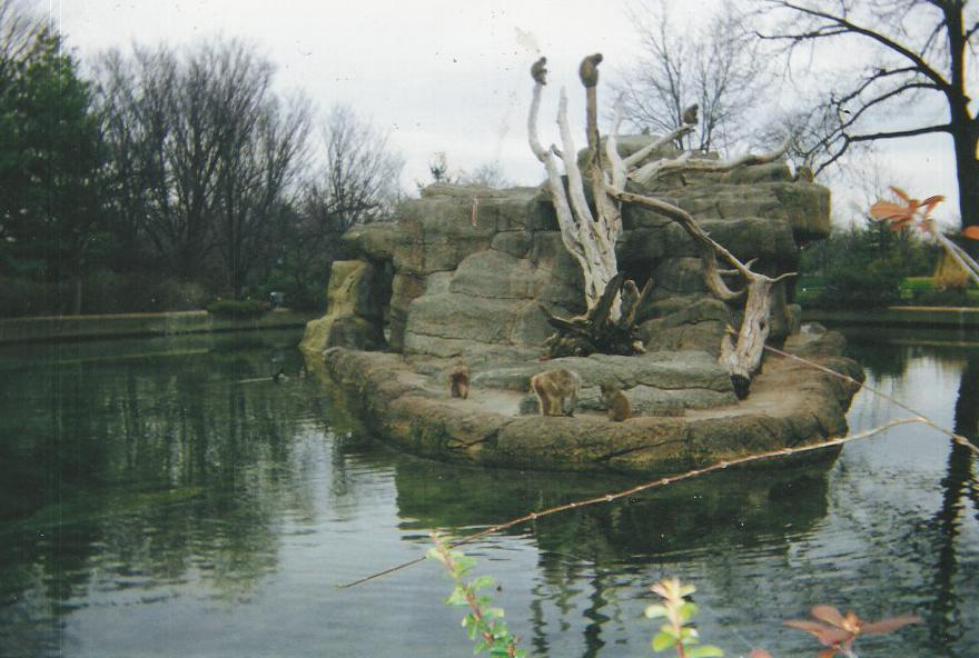 Japanese Macaques on an island enclosure at the Cincinnati Zoo, Ohio